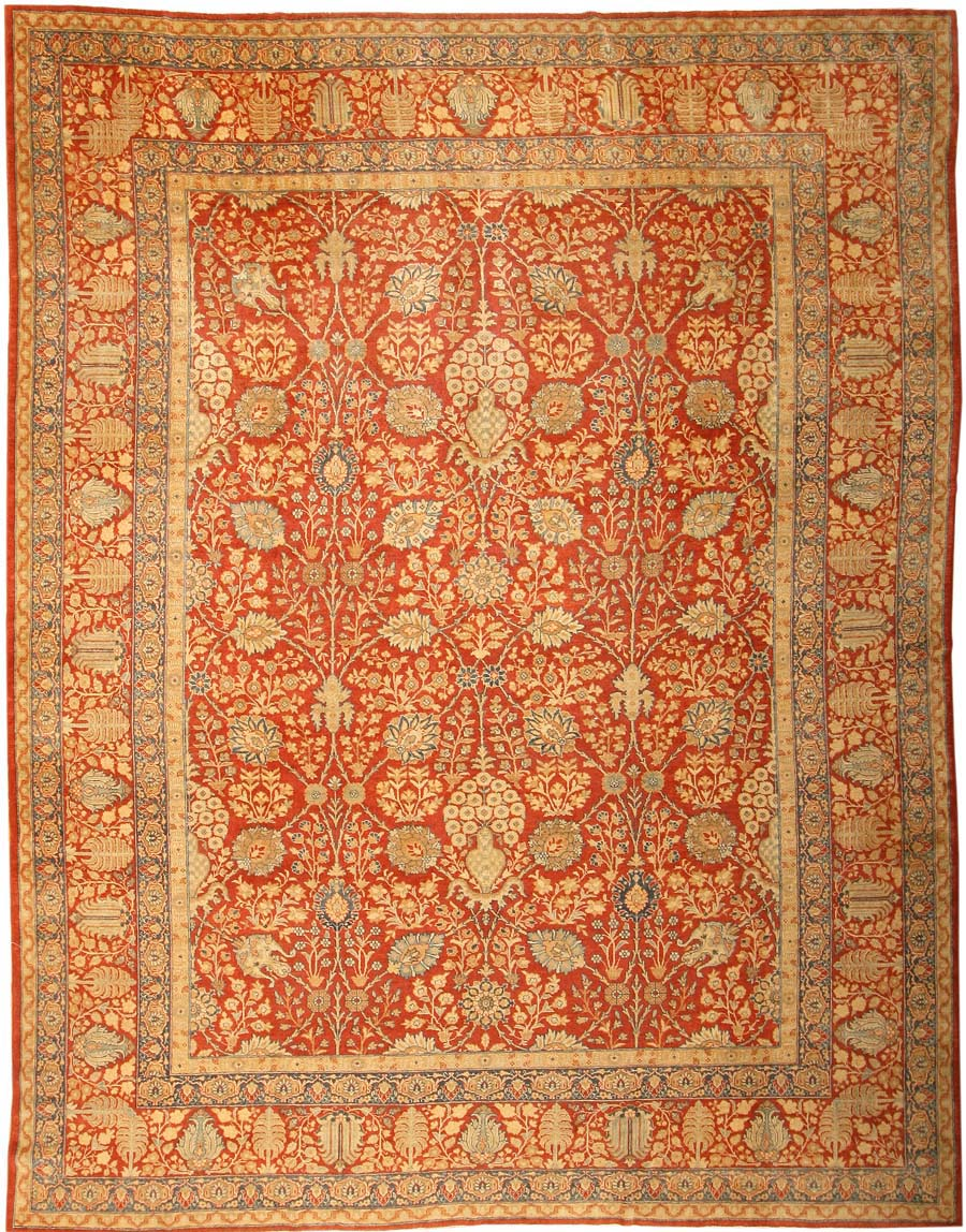 Antique Tabriz Persian Rug